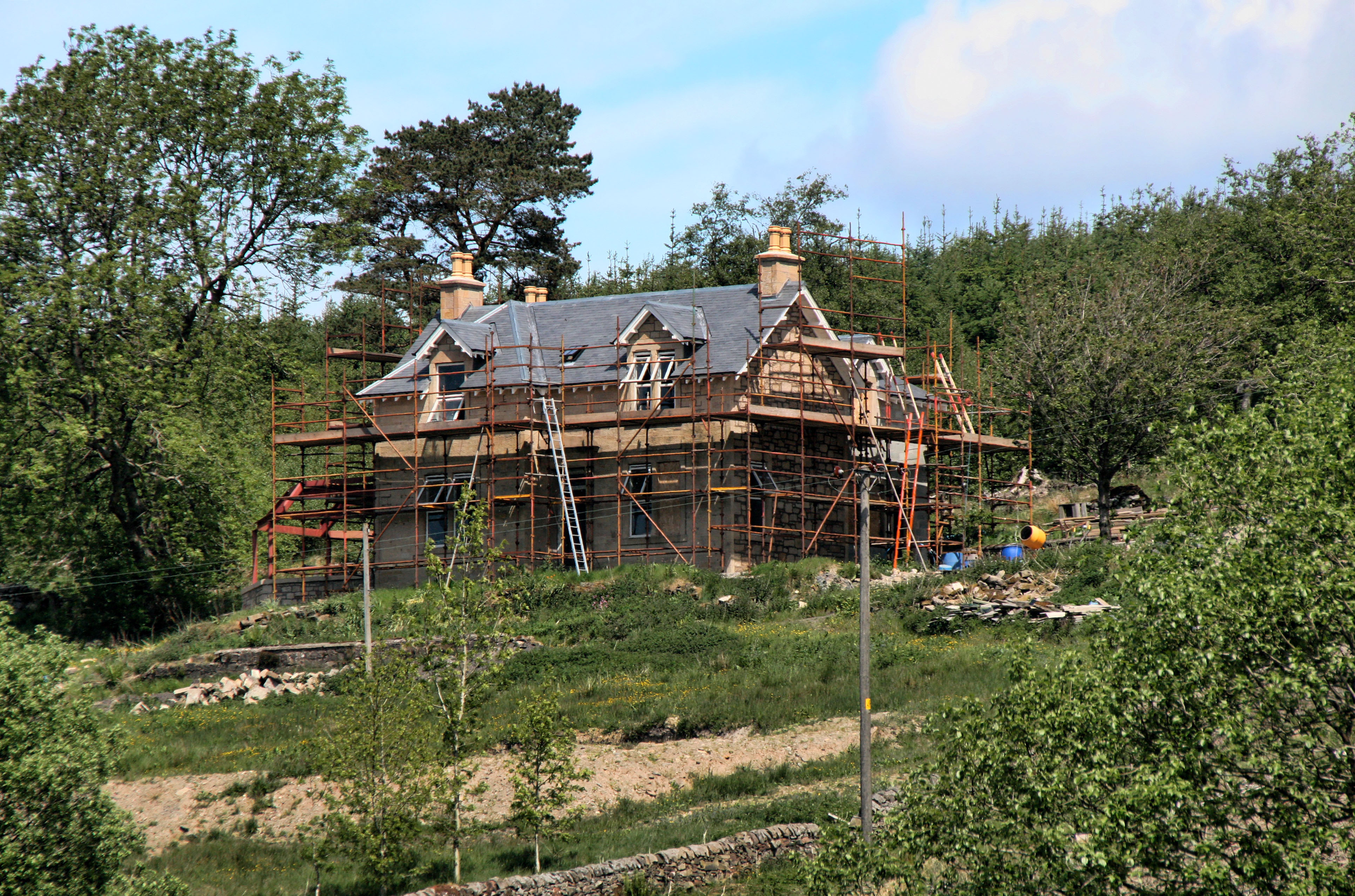 Ruined and rebuilt school house at Riccarton Junction. Riccarton Junction was a railway village and station in a remote location on the former North British Railway Line, known as the Waverley Route, that was closed in 1969. At one time there was a population of about 120 with a school, schoolmaster's house, a small post office and shop. (Source: Border Railway Rambles by Alasdair Wham).